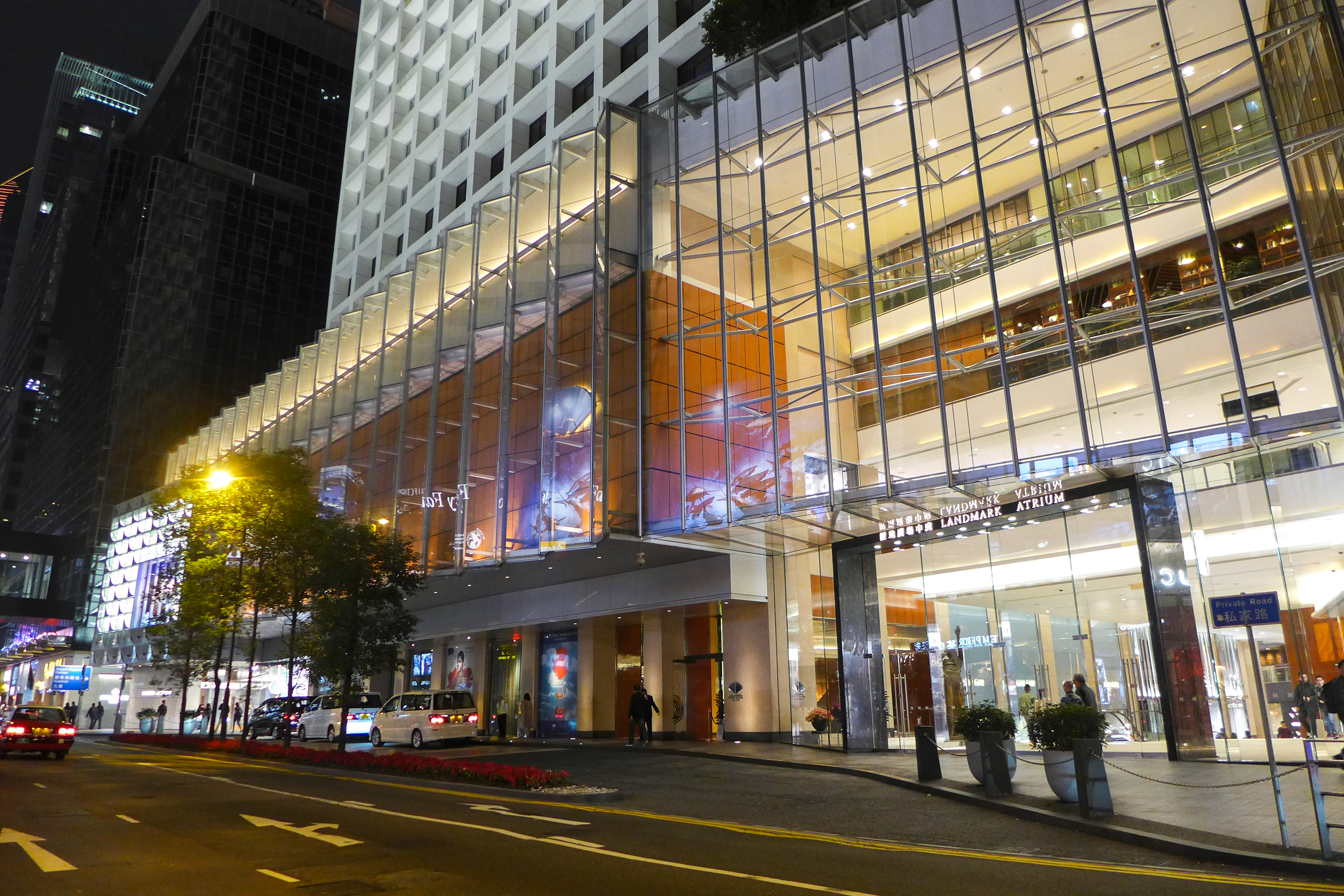 York House Entrance Night view